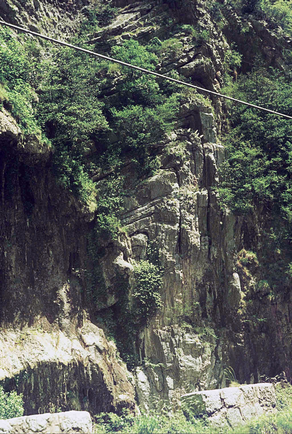 Tilted Anticline in the Pirinees, Spain